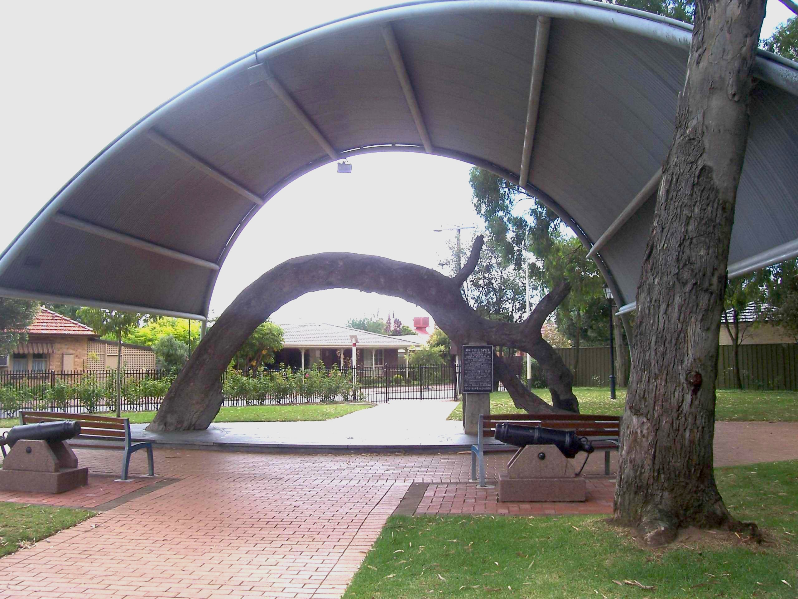 Corrected image levels using gimp. Applied gaussian blur, radius 0.6px to cover inhomogeneities in histogram